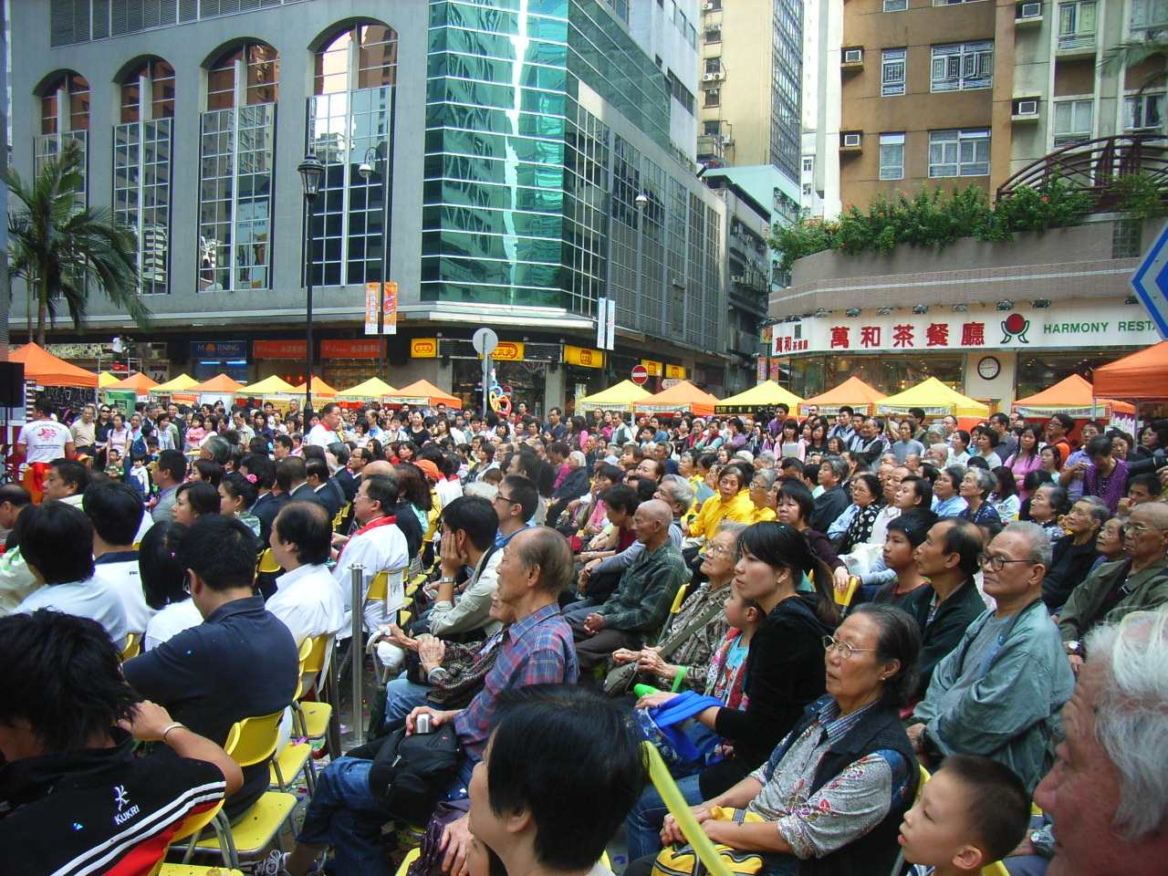 上環永樂街與摩利臣街交界,即十皇殿附近 2008~2009秋冬上環假日行人坊 Lion dance